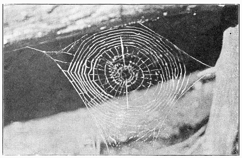 Horizontal web of Uloborus near the ground, one side attached to a fallen tree. The outer spiral is finished over only half the diameter of the web. A line of loose silk runs across the web, and in the middle is a peculiar zigzag spiral. The figure is about the real size.